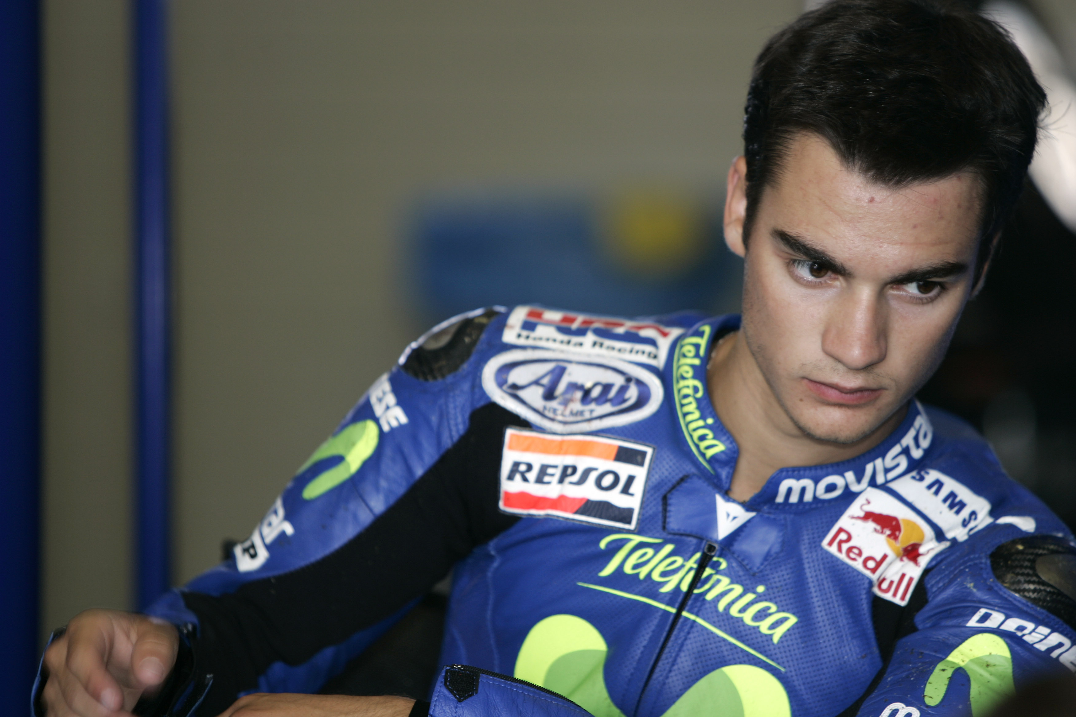 Dani Pedrosa at the 2005 Czech Republic Grand Prix.